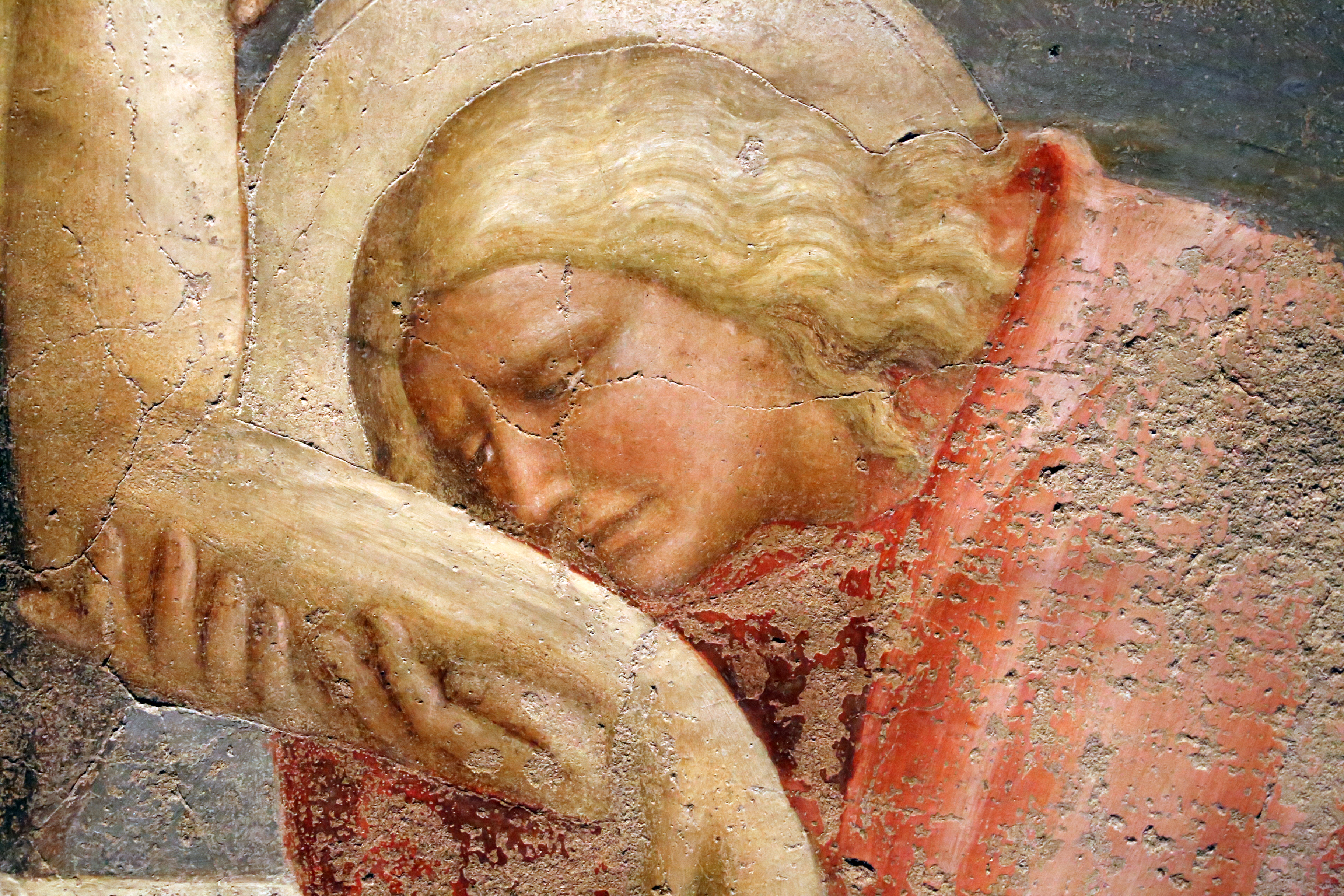 Pietà by Masolino